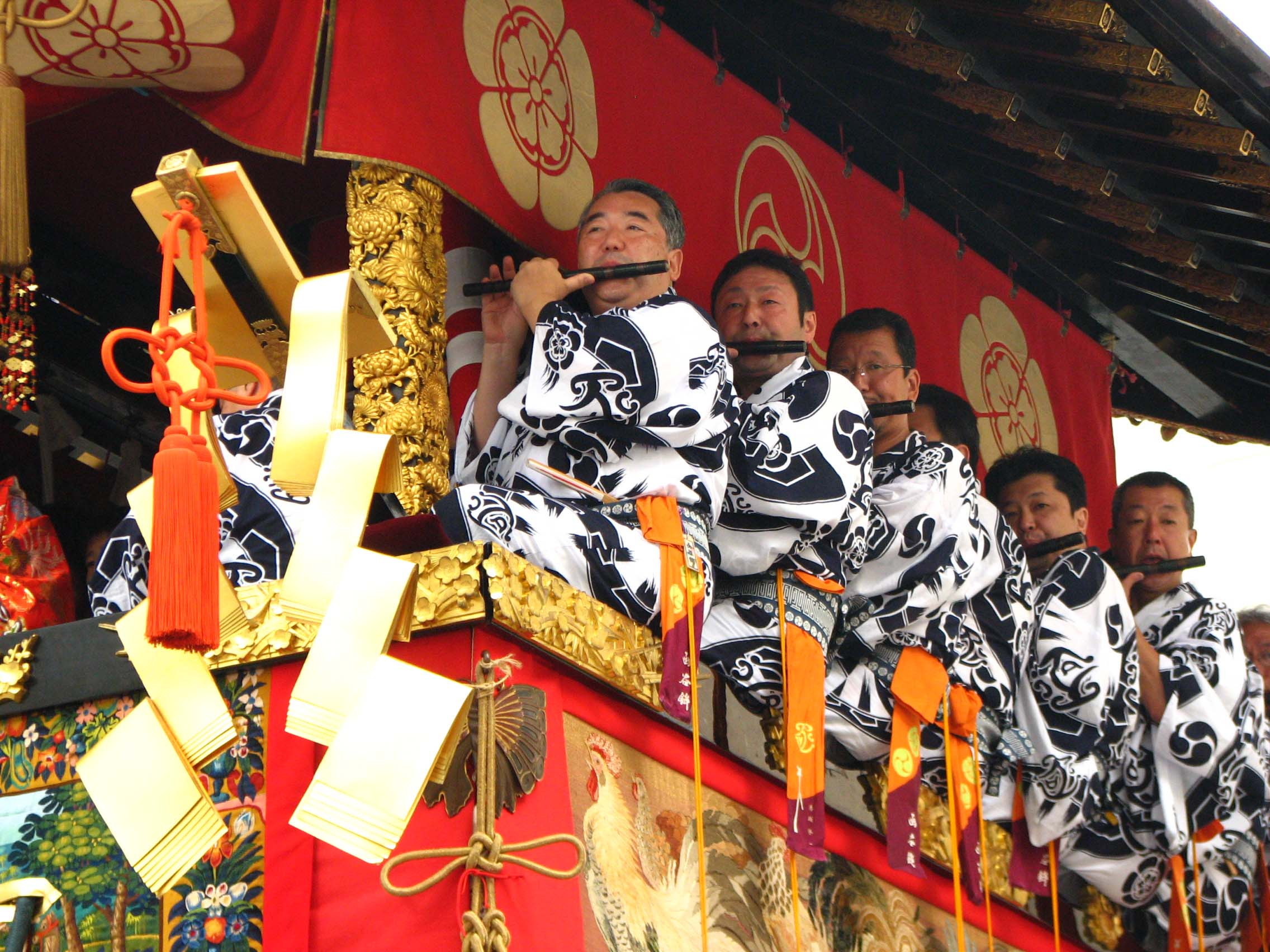 description:Kankoboko float, one of many that come through town. photographer: Chris Gladis photographer location:Kyoto, Japan flickr_url: [1]